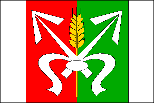 Municipal flag of Radslavice village, Vyškov District, Czech Republic.